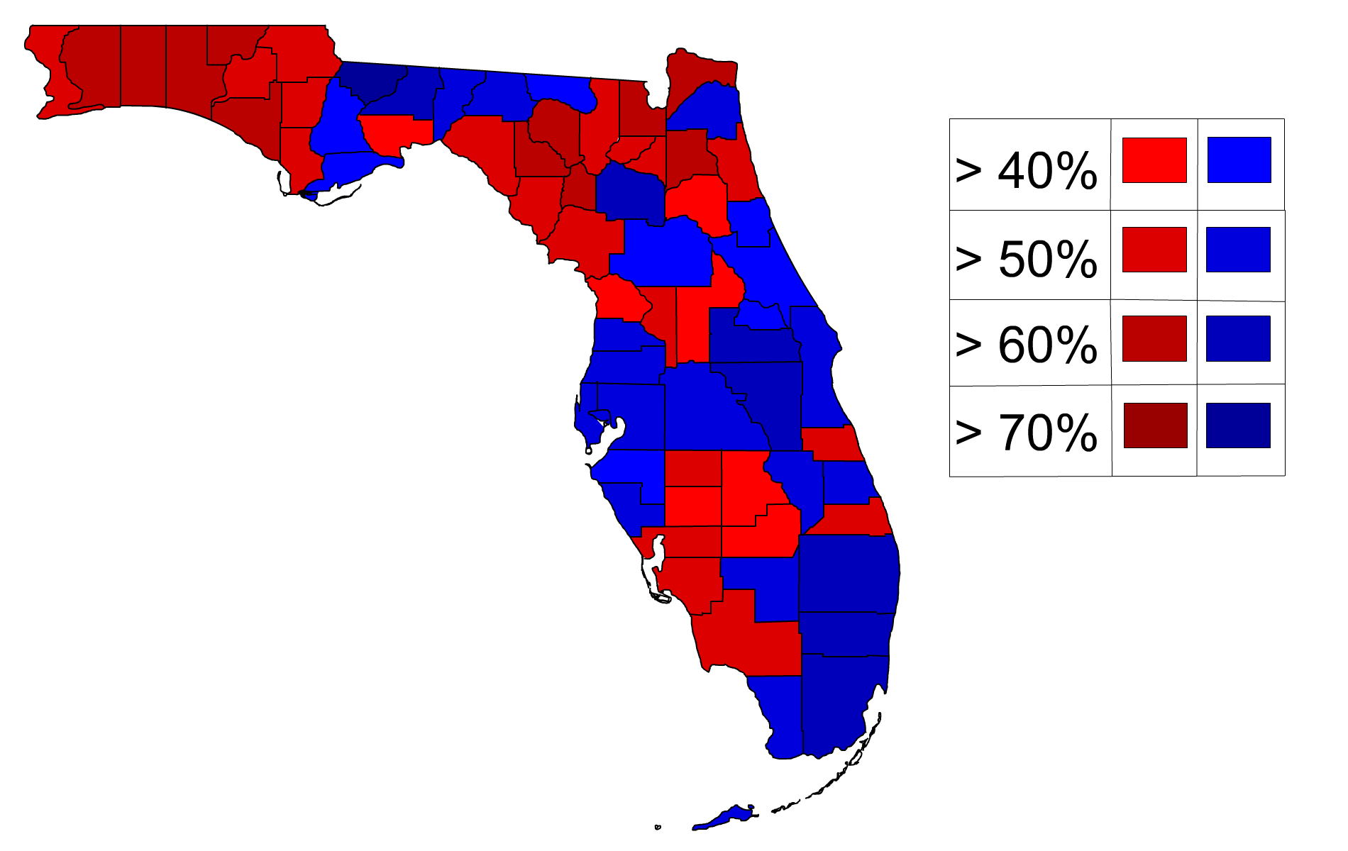 United States Senate election in Florida, 2012